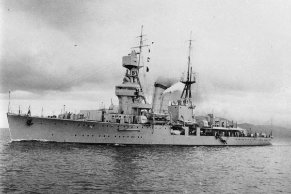 Chinese cruiser NING-HAI on trial run off Harima Shipbuildings, Japan. She was caught in 1938 and renamed to IOSHIMA in 1944 by Imperial Japanese Navy.